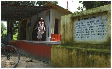 Outside view of Binda Baba Temple